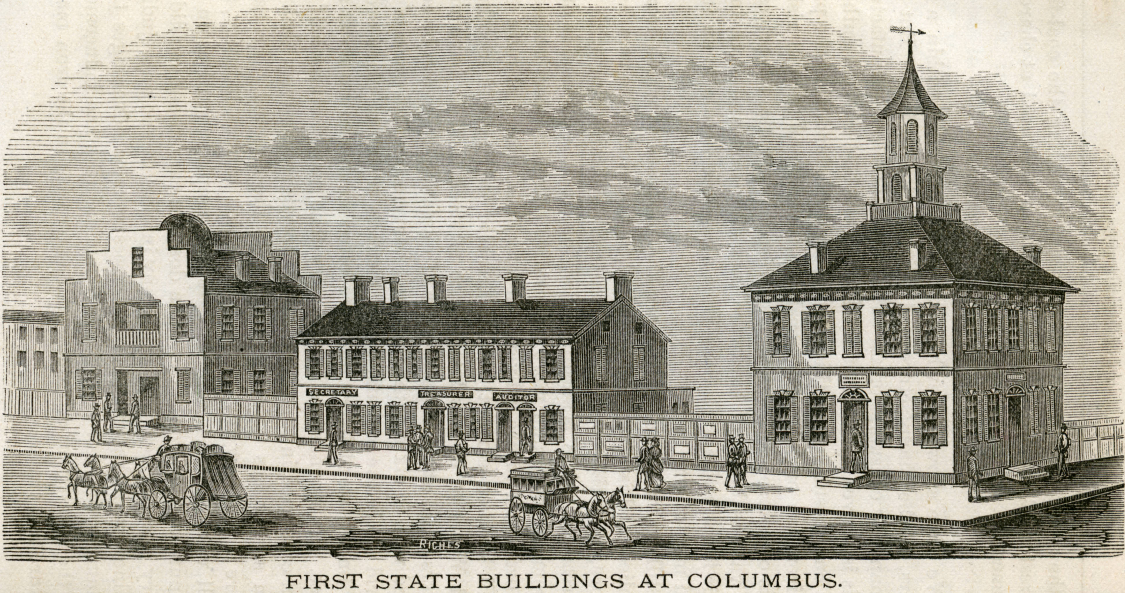 In Columbus, Ohio, published in Columbus, Ohio: Its History, Resources, and Progress (1873).